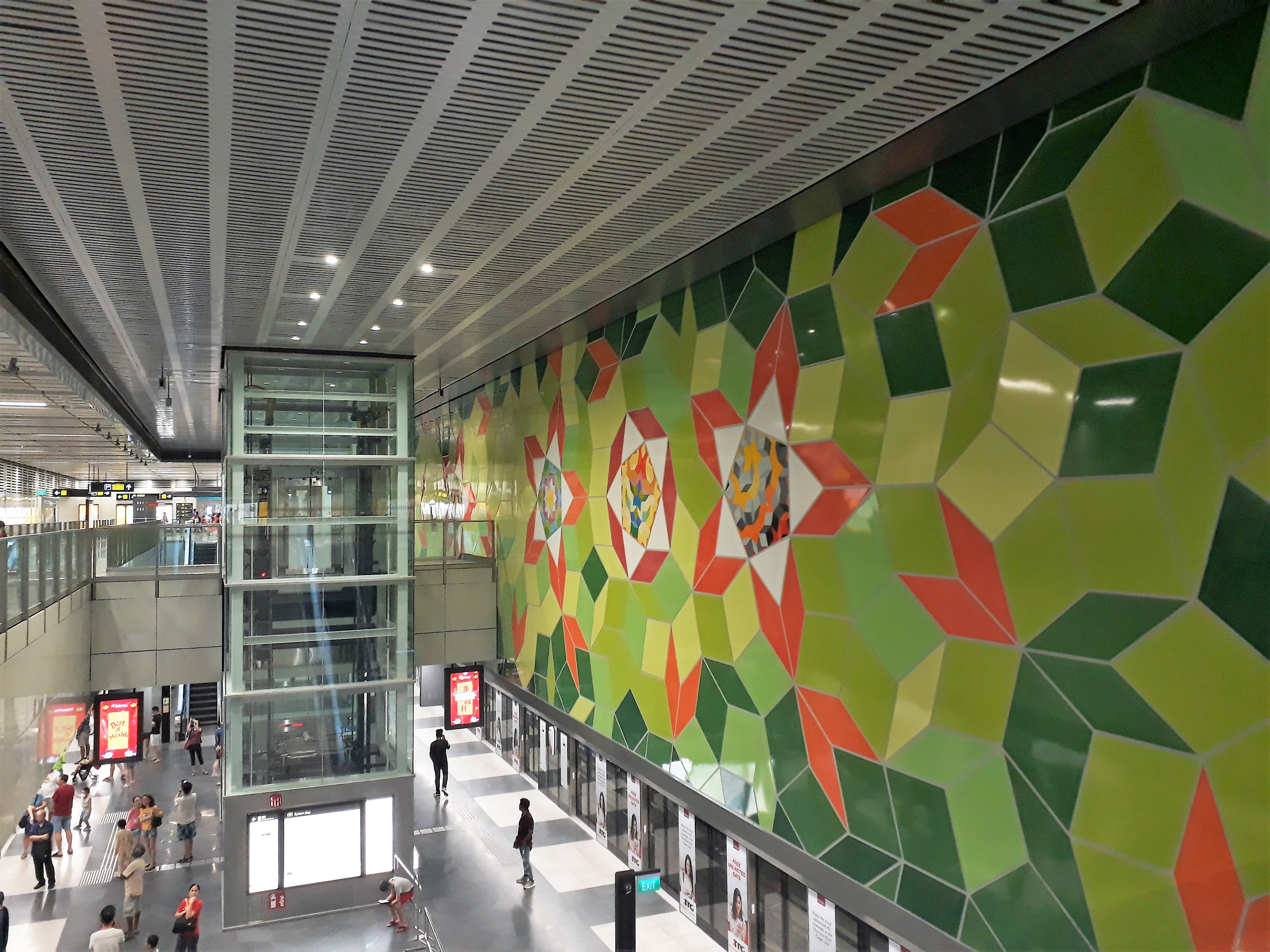 Artwork at Woodlands South